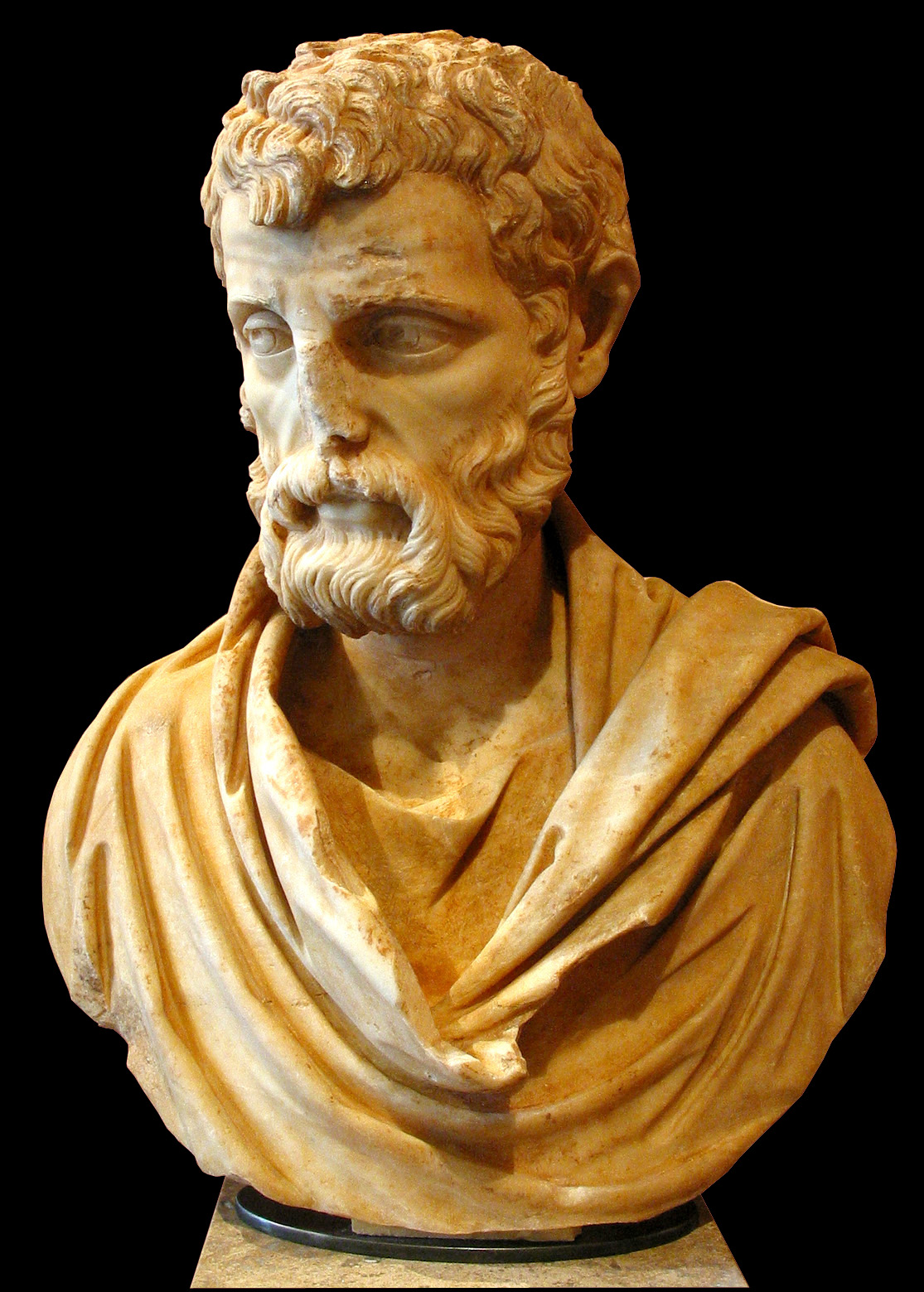 Portrait of Herodes Atticus. Marble, Roman artwork, ca. 161 CE. From Probalinthos, Attica, Greece.